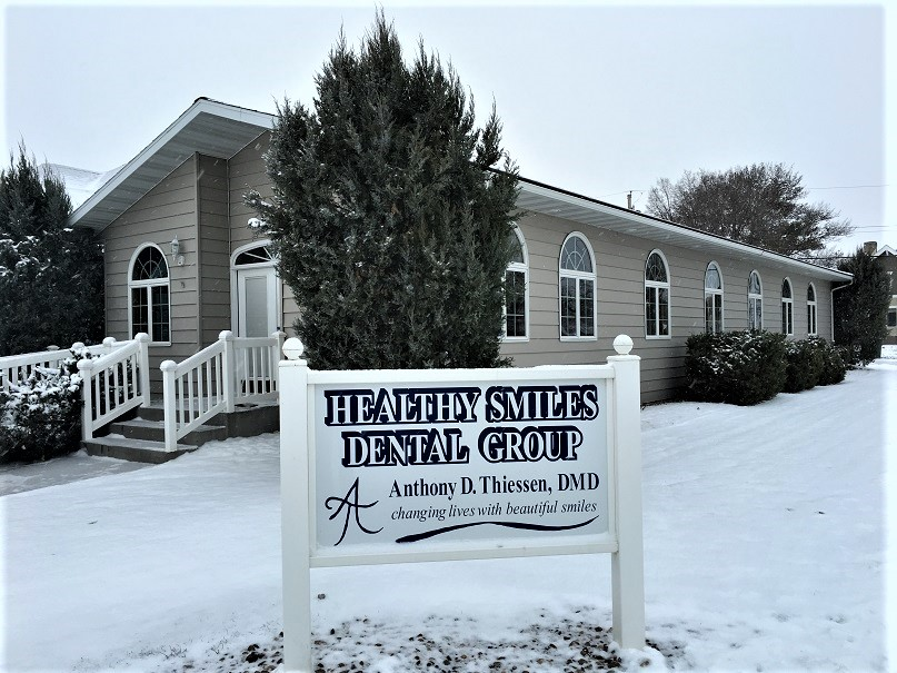 Peoples' Congregational Church Church has been replaced at listed address by a dental clinic.